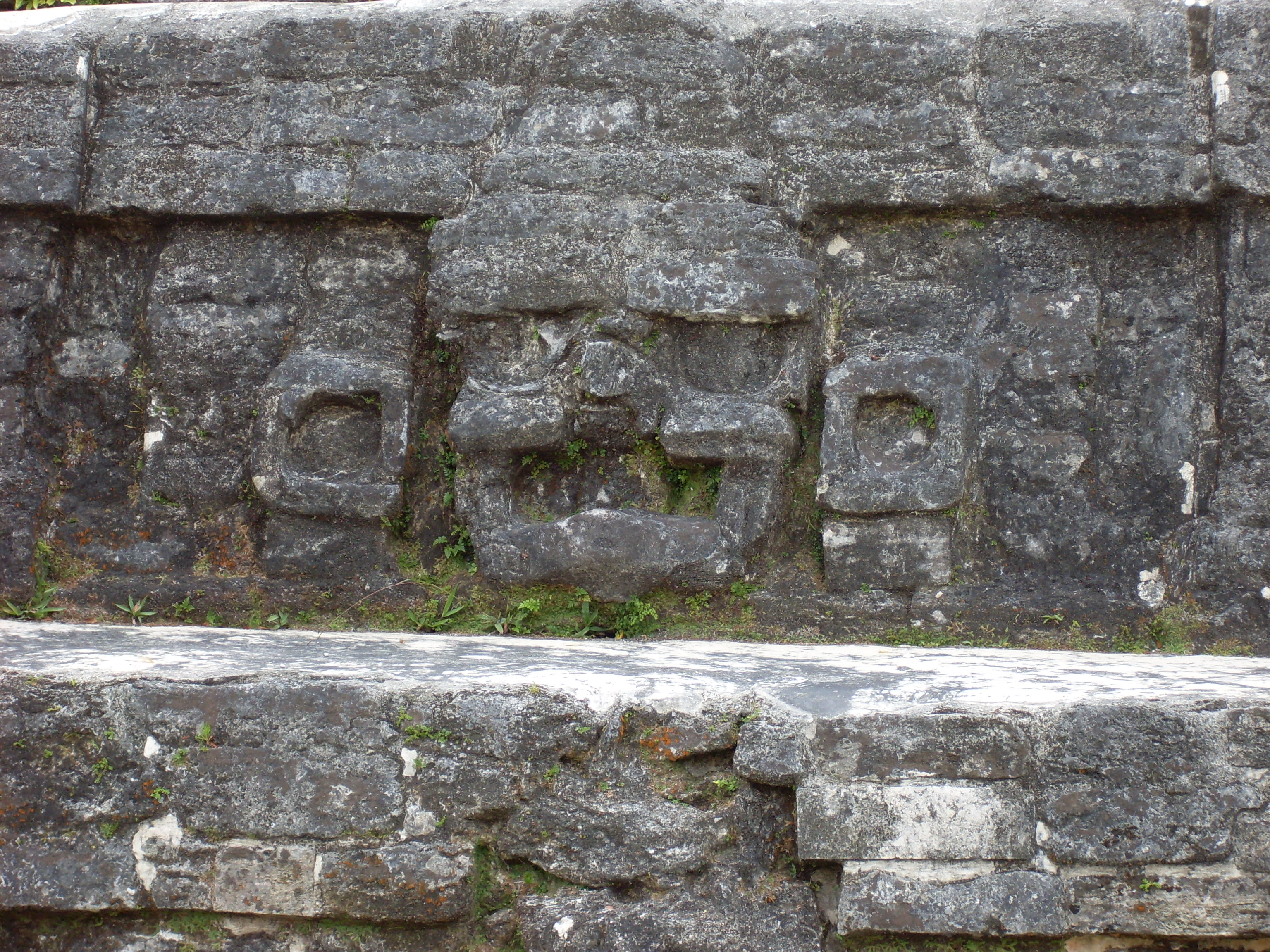 Altun Ha face in rocks